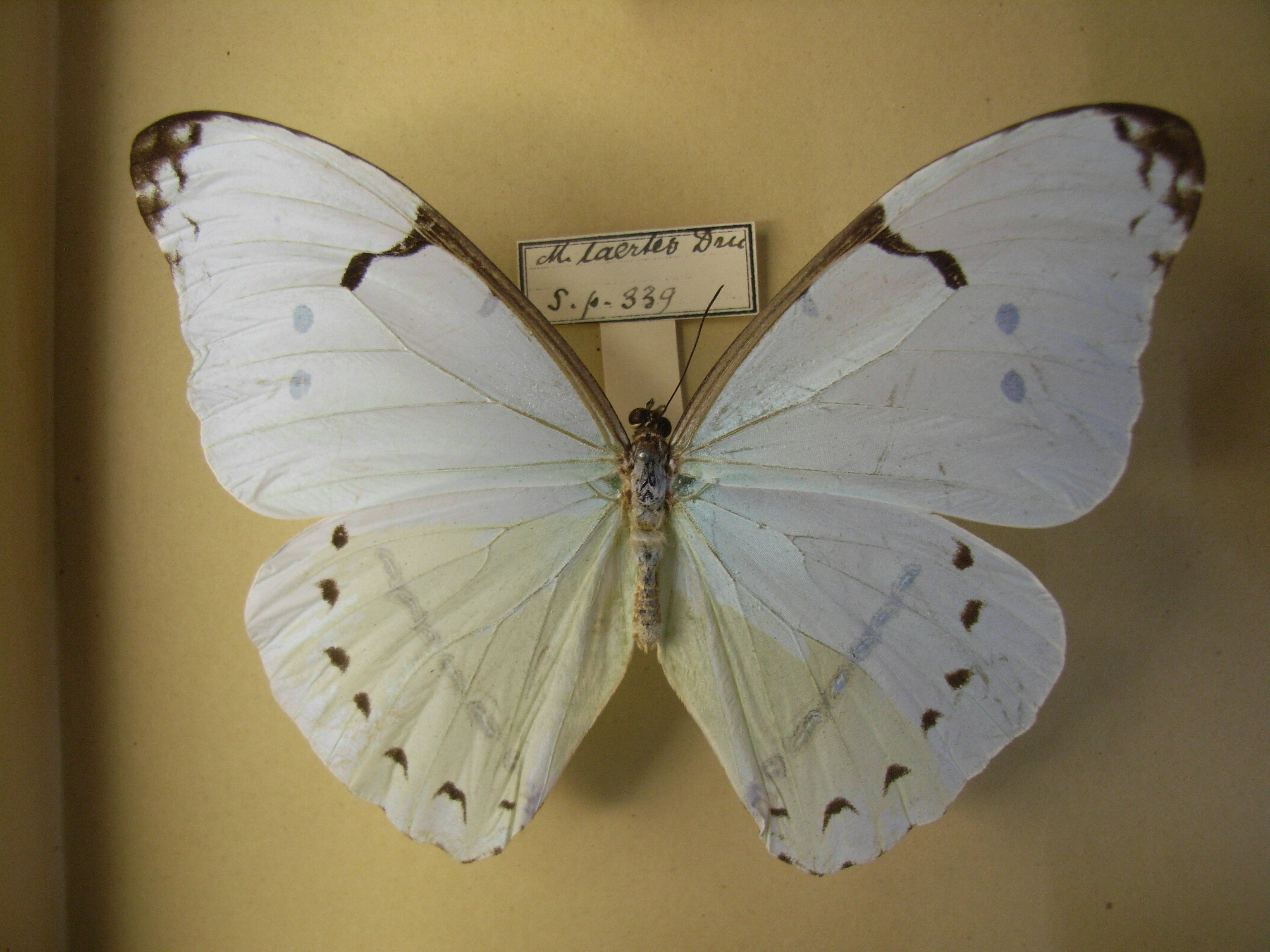 Morpho epistrophus Ex Coll Museum Wiesbaden